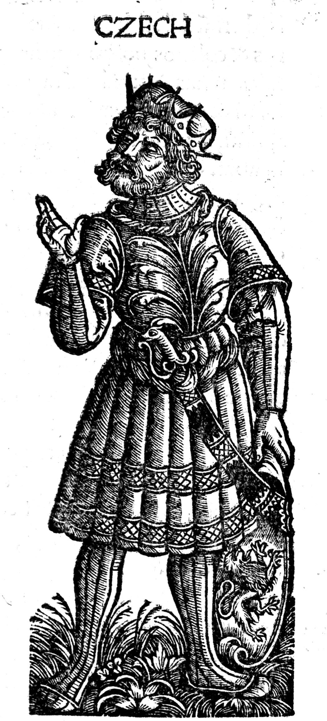 Illustration from Chronica Polonorum